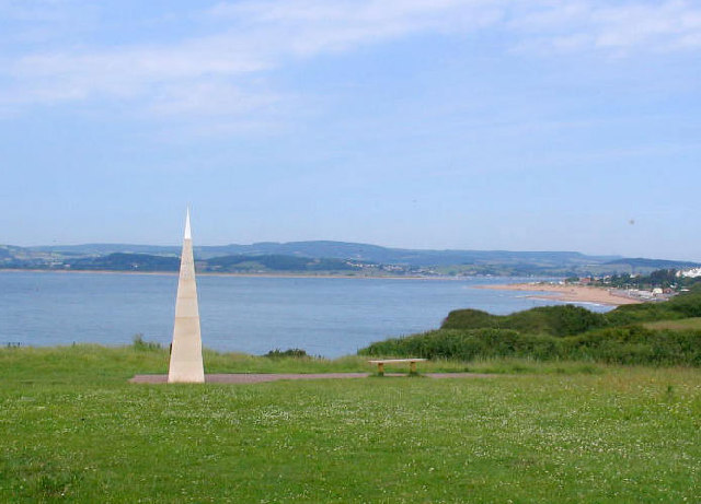 The Geoneedle at Orcombe Point Exmouth. The Geoneedle was unveiled by HRH Prince of Wales in 2002 to inaugurate the World Heritage Site. It is constructed from stone representing both the major building stones of the Jurassic Coast World Heritage Site and the sequence of rocks deposited along the site.